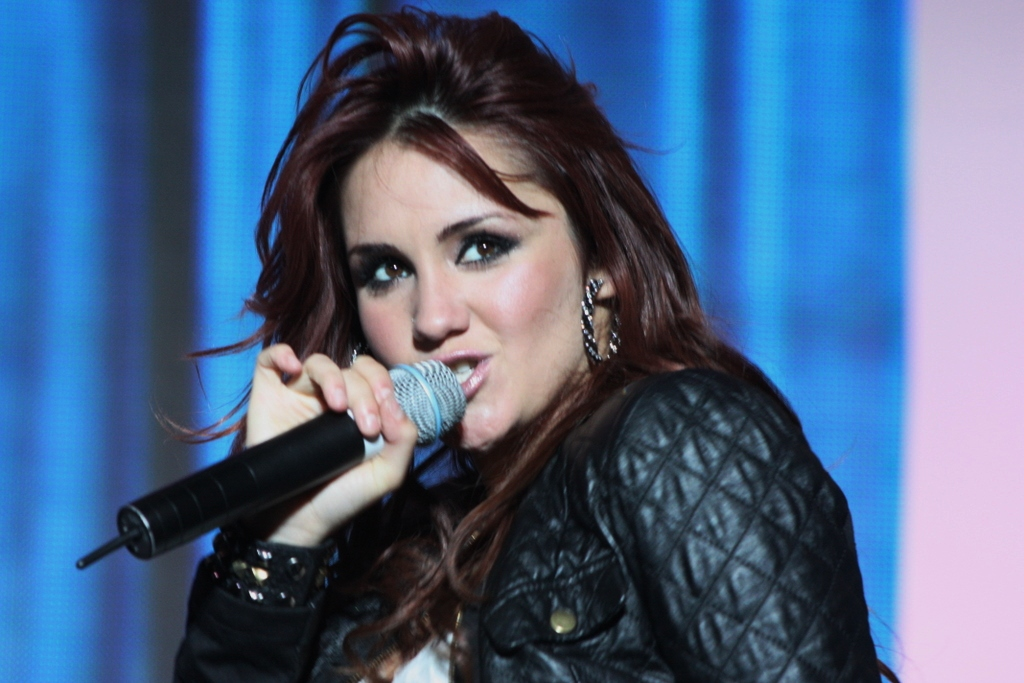 Mexican actress and musician Dulce Maria at Teleton 2011 in Mexico.